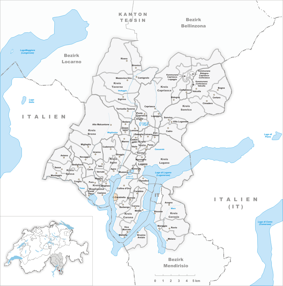 Municipality Carabietta